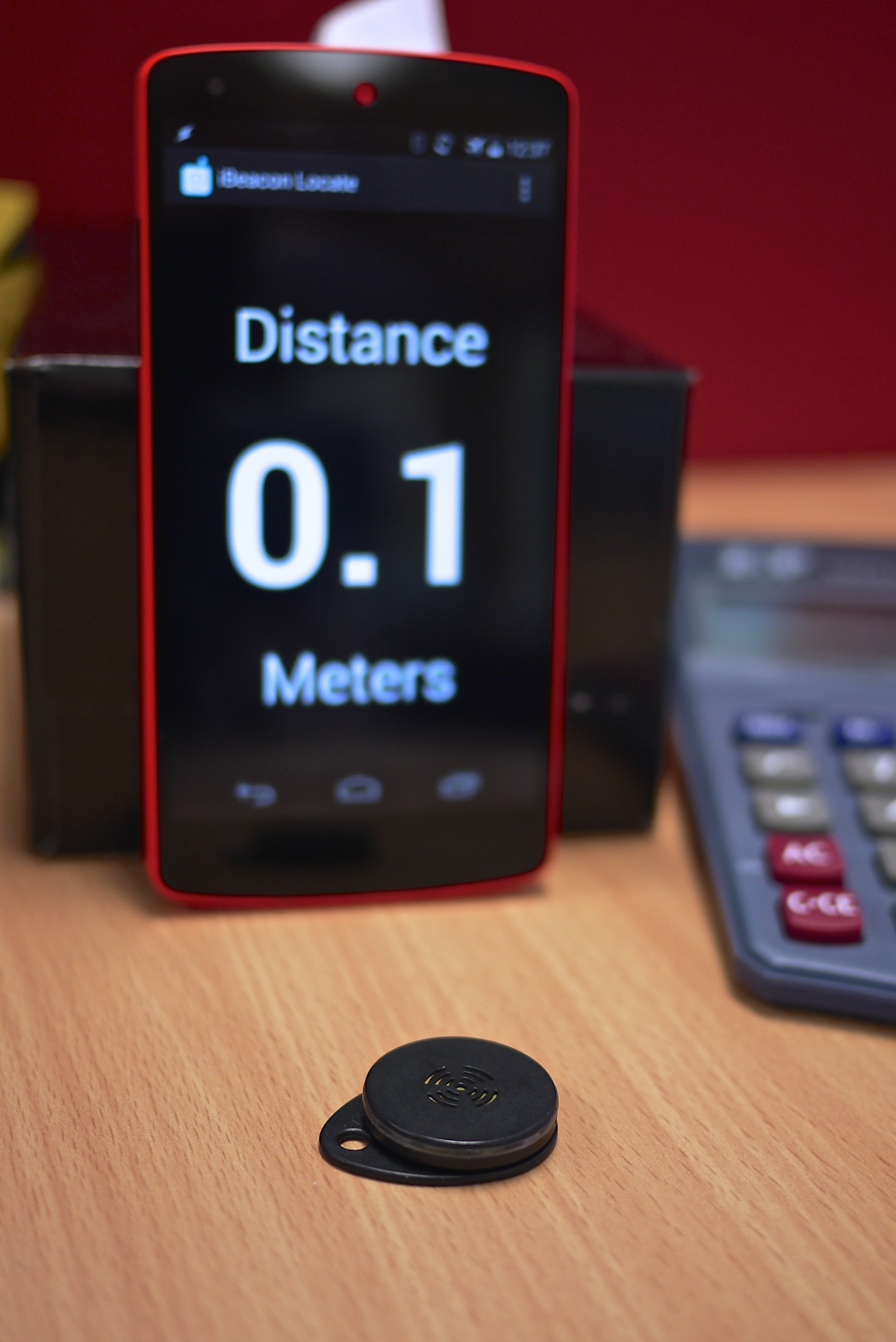 beacons by jnxyz.education